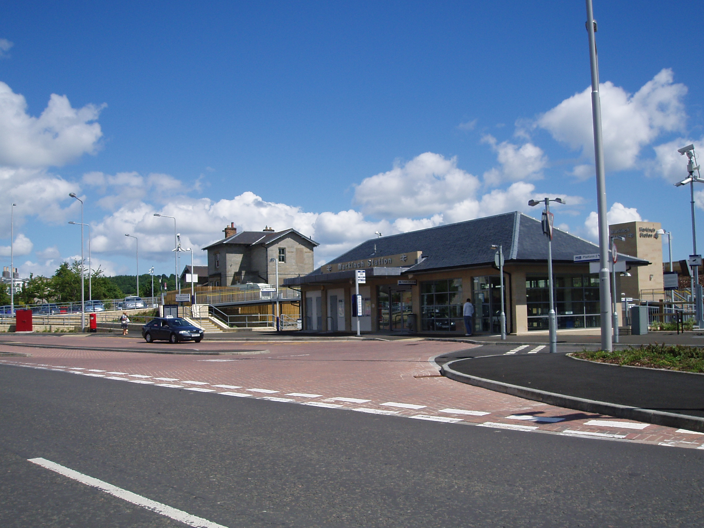 The newly developed Markinch rail hault with park and ride facilities. The older building in the background was the original station building and station masters house.